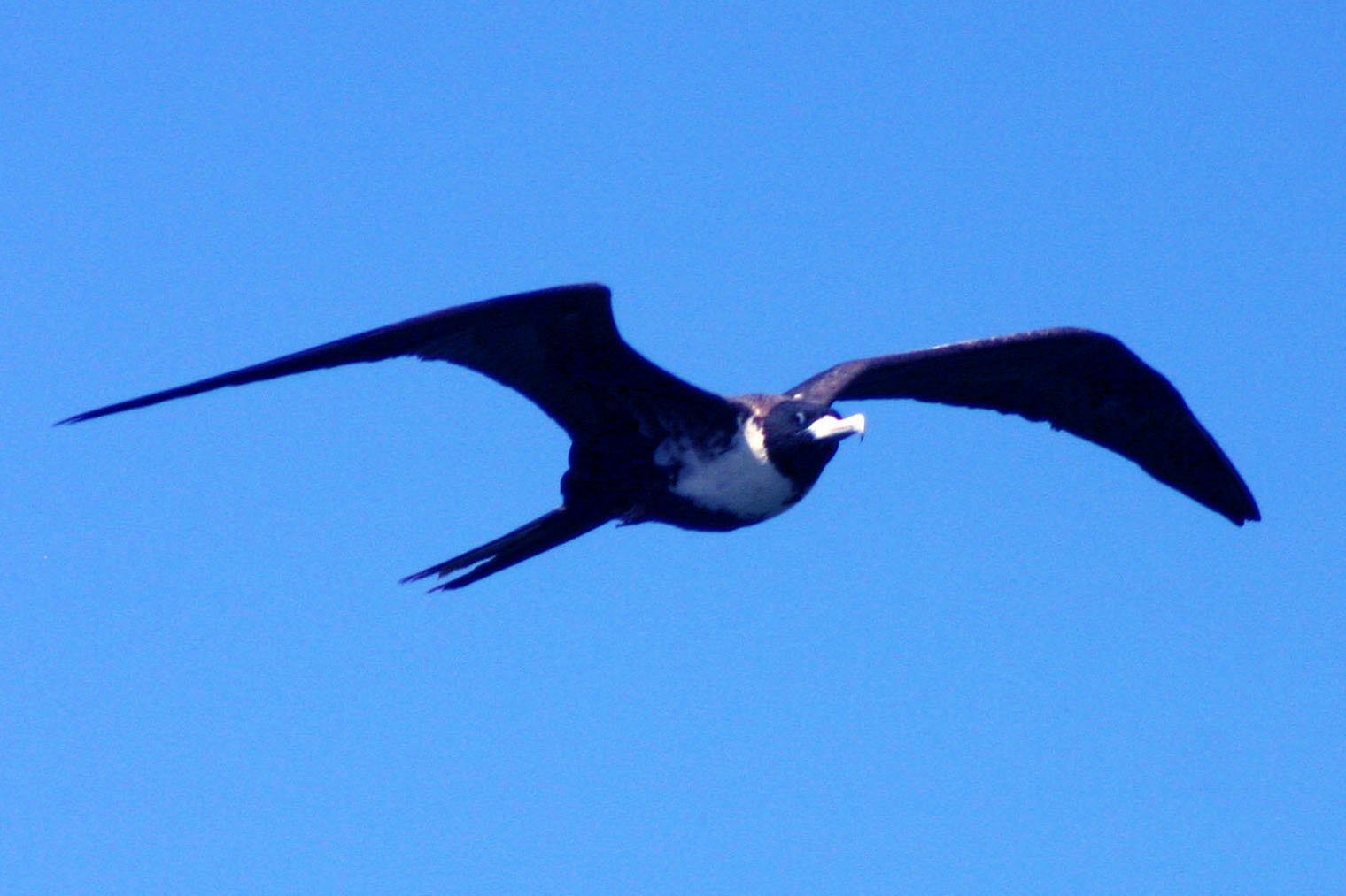 Female Magnificant Frigatebird photographed in Antigua.